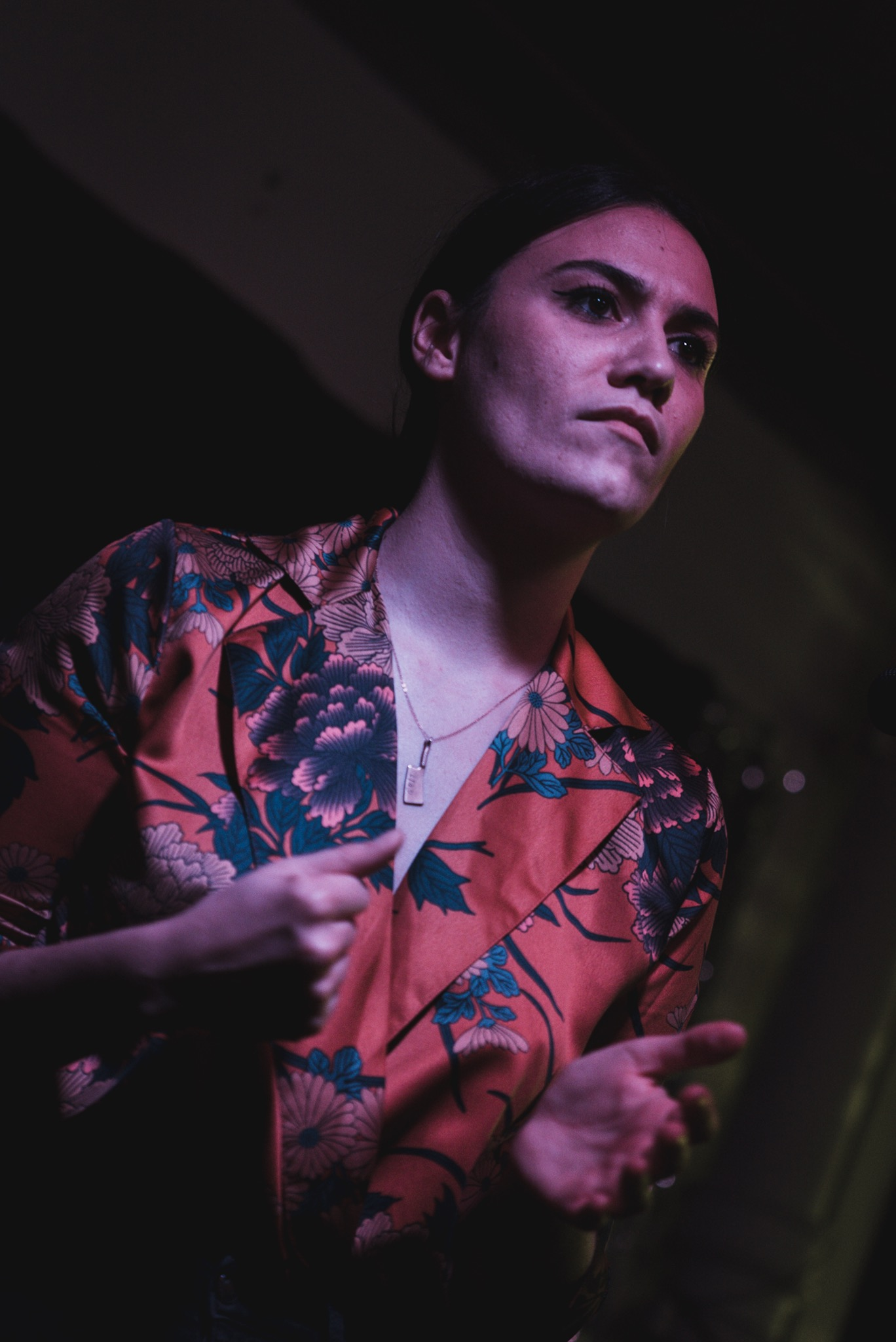 Nadine Shah at Rough Trade